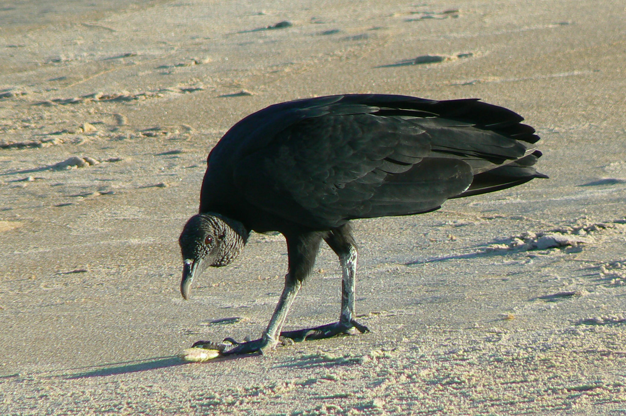 Black Vulture (also known as the American Black Vulture) in Espírito Santo, Brazil. It is eating scraps from a fishing boat.